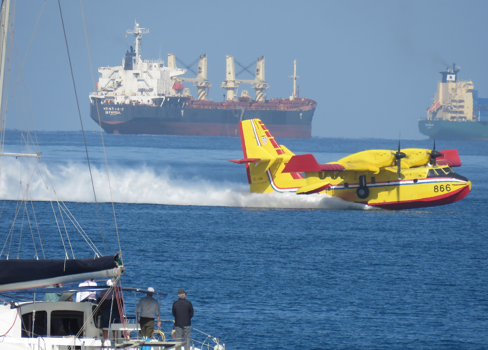 Croatia A.F (Canadaier CL-415) pumping water near Ashdod port as part of the foreign forces helping Israel to overcome the fires.